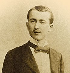 Milutin Milanković as student, in Viena.